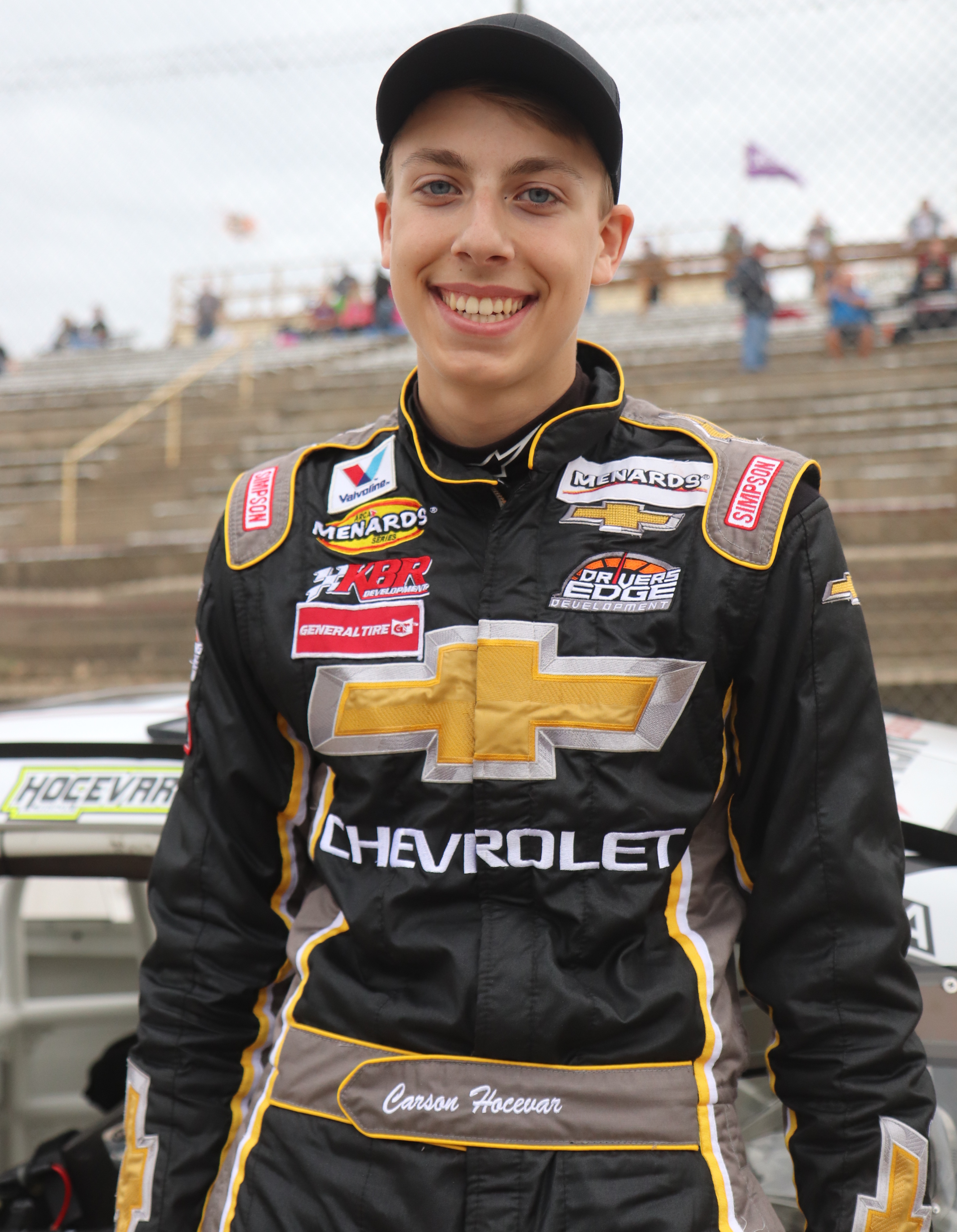 ARCA driver Carson Hocevar at the 2019 race at Madison.